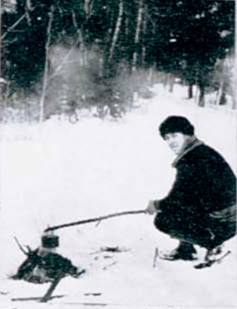 A student cooking over an open fire from the 1921–1922 Sturgeon Bay High School yearbook, caption reads "This is the Life"